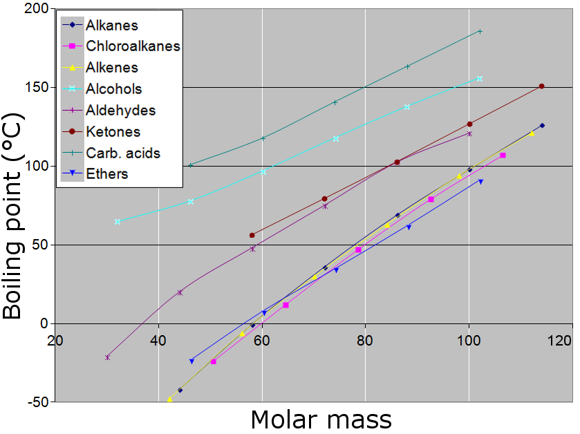 Graph showing the boiling points of alkanes, alkenes, ethers, halogenoalkanes, aldehydes, ketones, alcohols and carboxylic acids as a function of molar mass. In all cases, boiling points of straight-chain compounds are used. All the curves show approximately the same gradient. Grouping of the curves shows the difference in strength between induced dipole-induced dipole forces (alkanes, alkenes, ethers and halogenoalkanes), permanent dipole-permanent dipole forces which raise the boiling points of aldehydes and ketones, and finally the strongest intermolecular hydrogen bonding in alcohols and carboxylic acids. Carboxylic acids have higher boiling points than alcohols due to the further presence of the polar C=O bond. Malti: Grafika li turi t-temperaturi li fihom jghalu numru ta komposti semplici organici. Din turi l-modi differenti li bihom jingibdu lejn xulxin dawn il-molekoli.